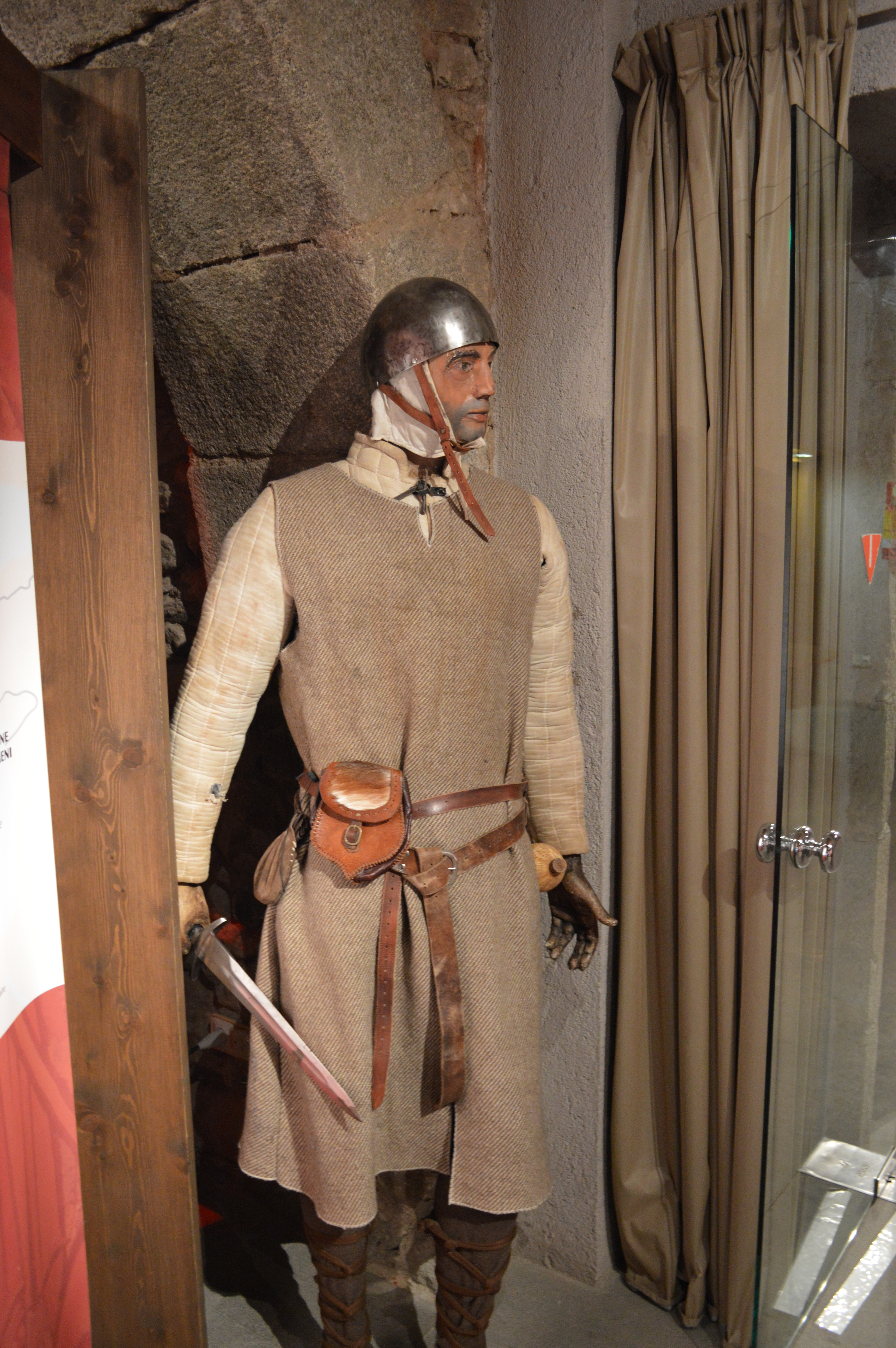 Reproduction of the equipment of an Almogavar of the Catalan Company at the expo " LA CRÒNICA DE RAMON MUNTANER. El temps dels Almogàvers " at the Museu Etnològic la Gabella d'Arbúcies (MEMGA).